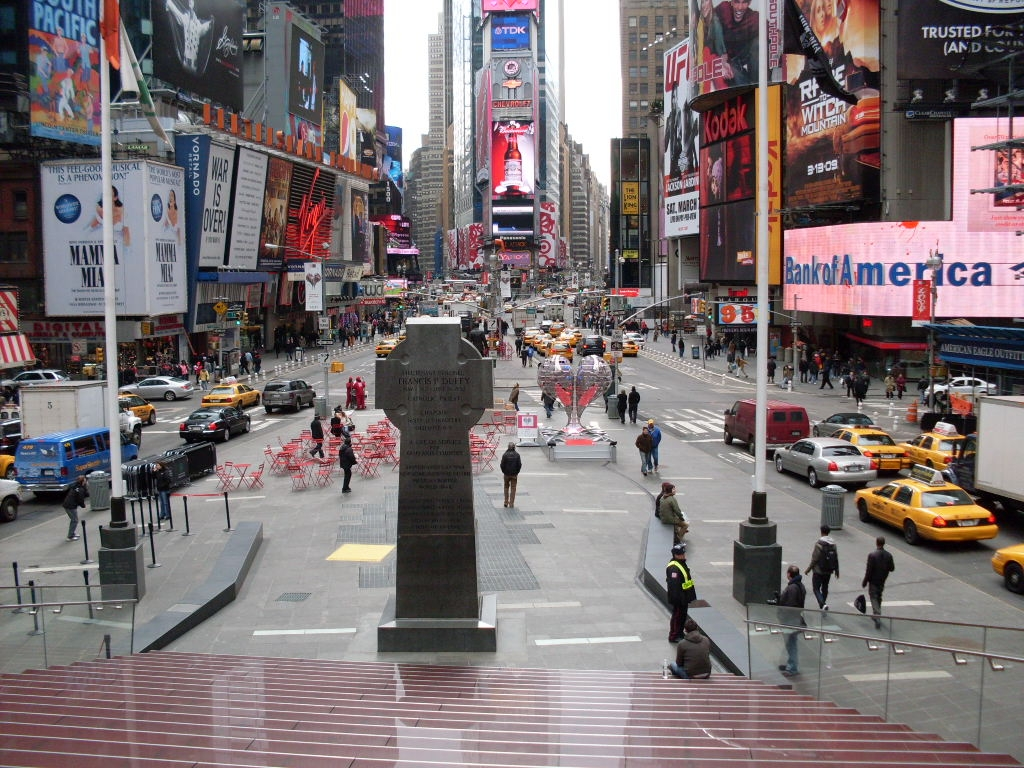 Times Square in NYC as seen from top step of bleacher steps on rear of TKTS booth.